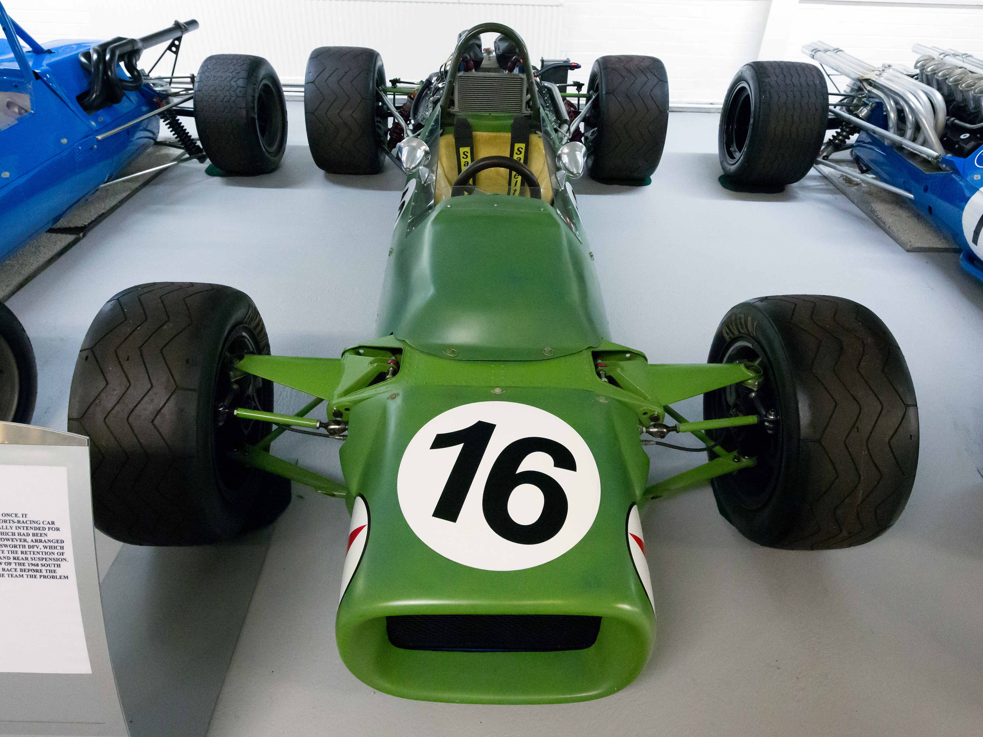 1968 Matra MS9